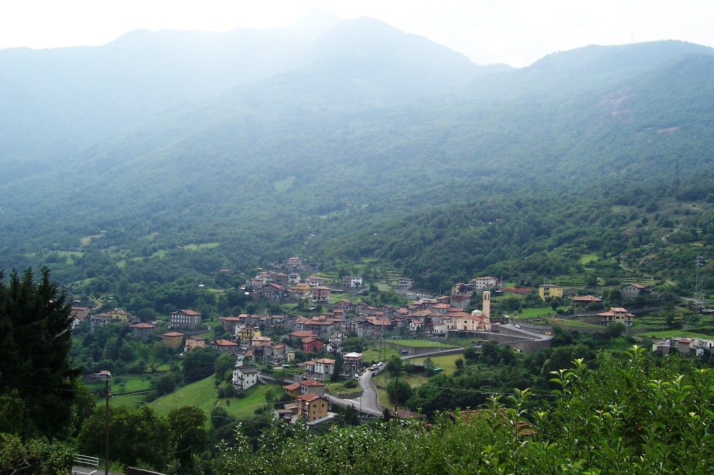 Novelle, Val Camonica